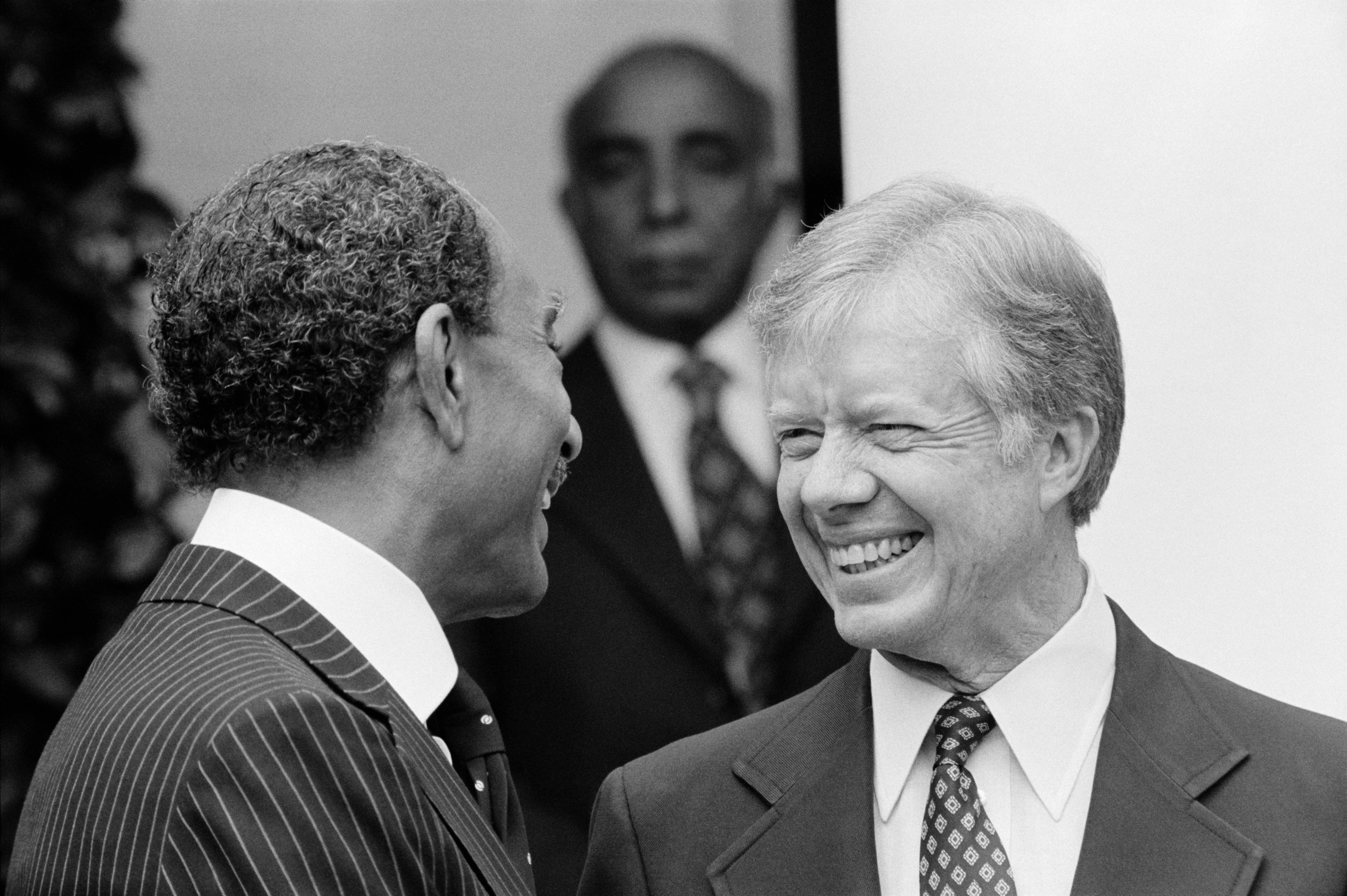 President Jimmy Carter welcomes Egyptian President Anwar Sadat at the White House, Washington, D.C.